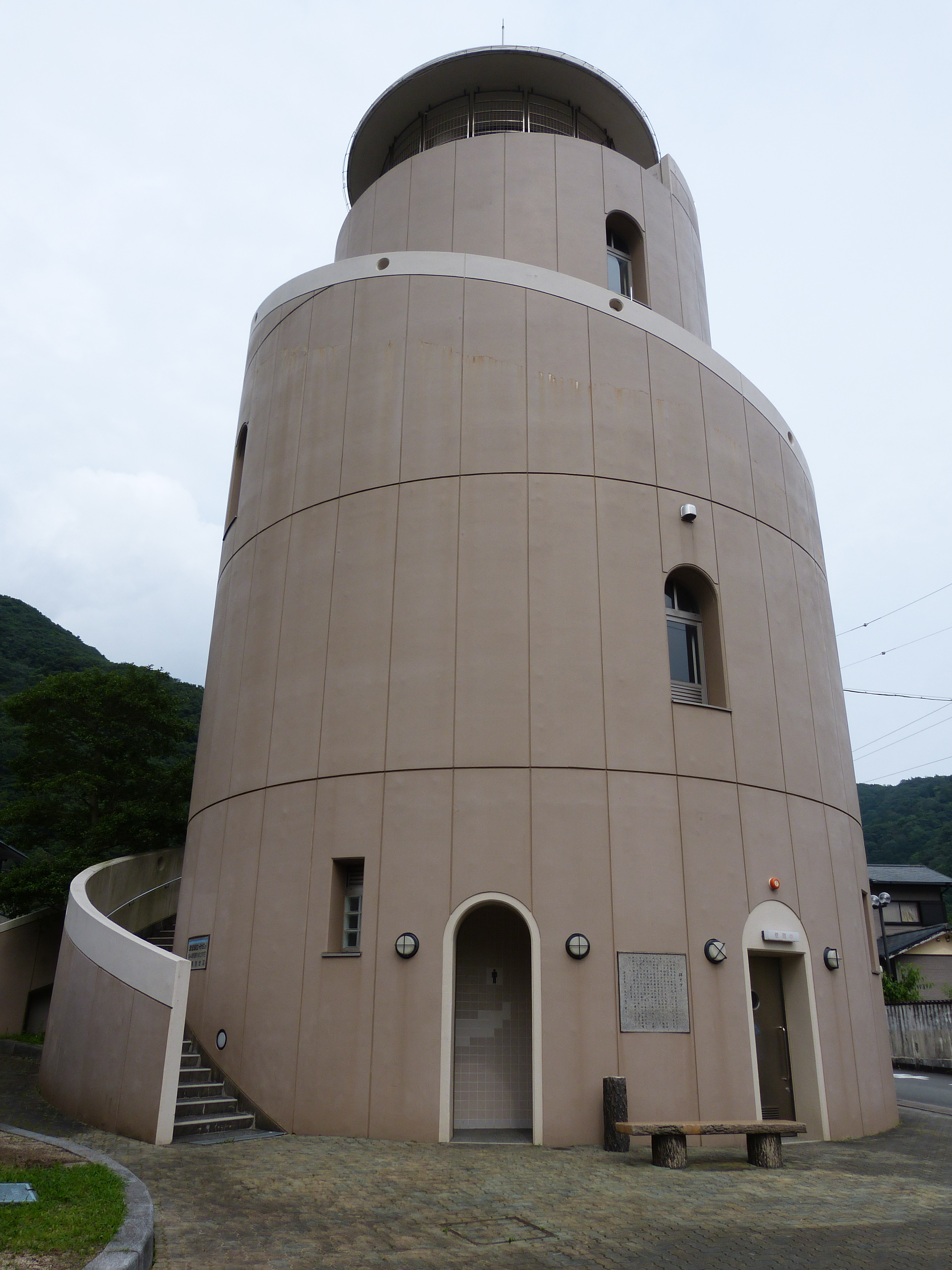 Nishiki tower ,Mie prefecture, Japan